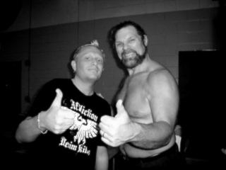 Hacksaw Jim Duggan and wrestling photographer "ROBDOG" at a recent FCW event in Temple Terrace Florida.